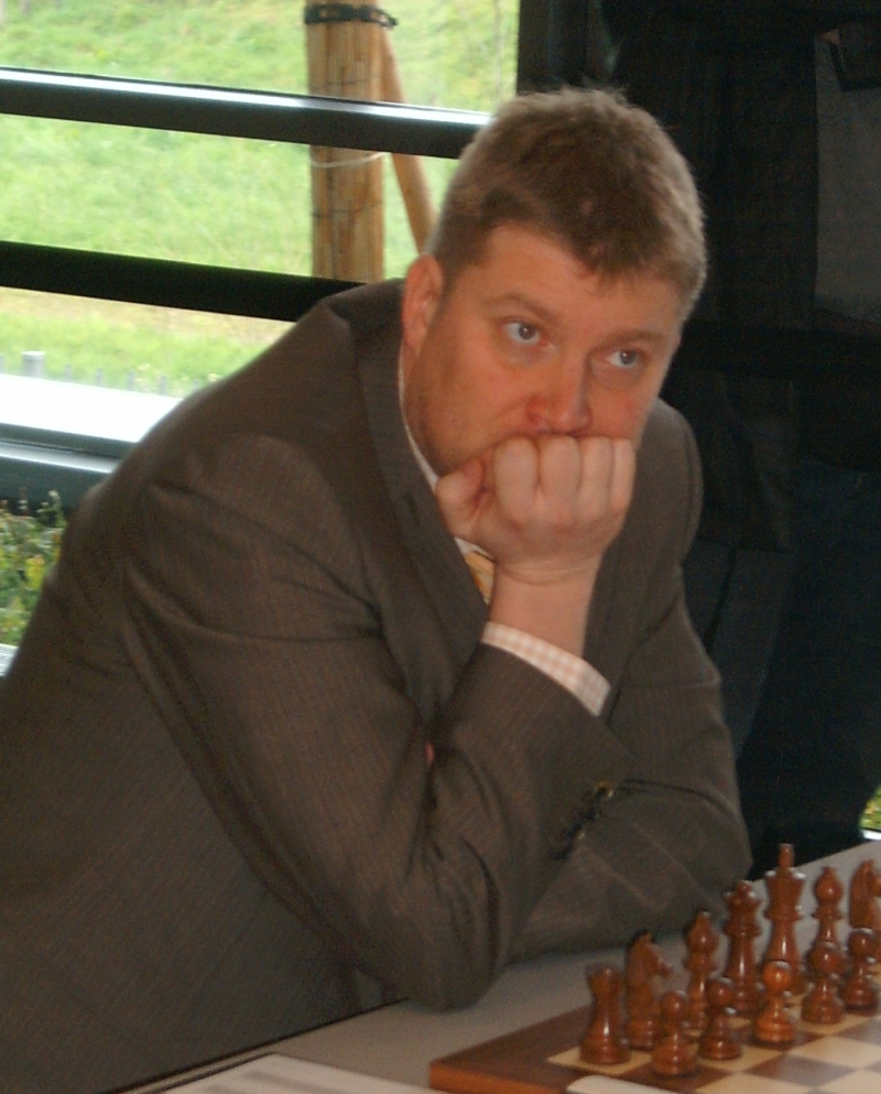 Alexei Shirov, chess grandmaster